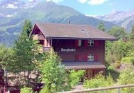 Chalet Bergheim, Wengen - The Outdoor Eduction Centre of the International school of Zug and Luzern